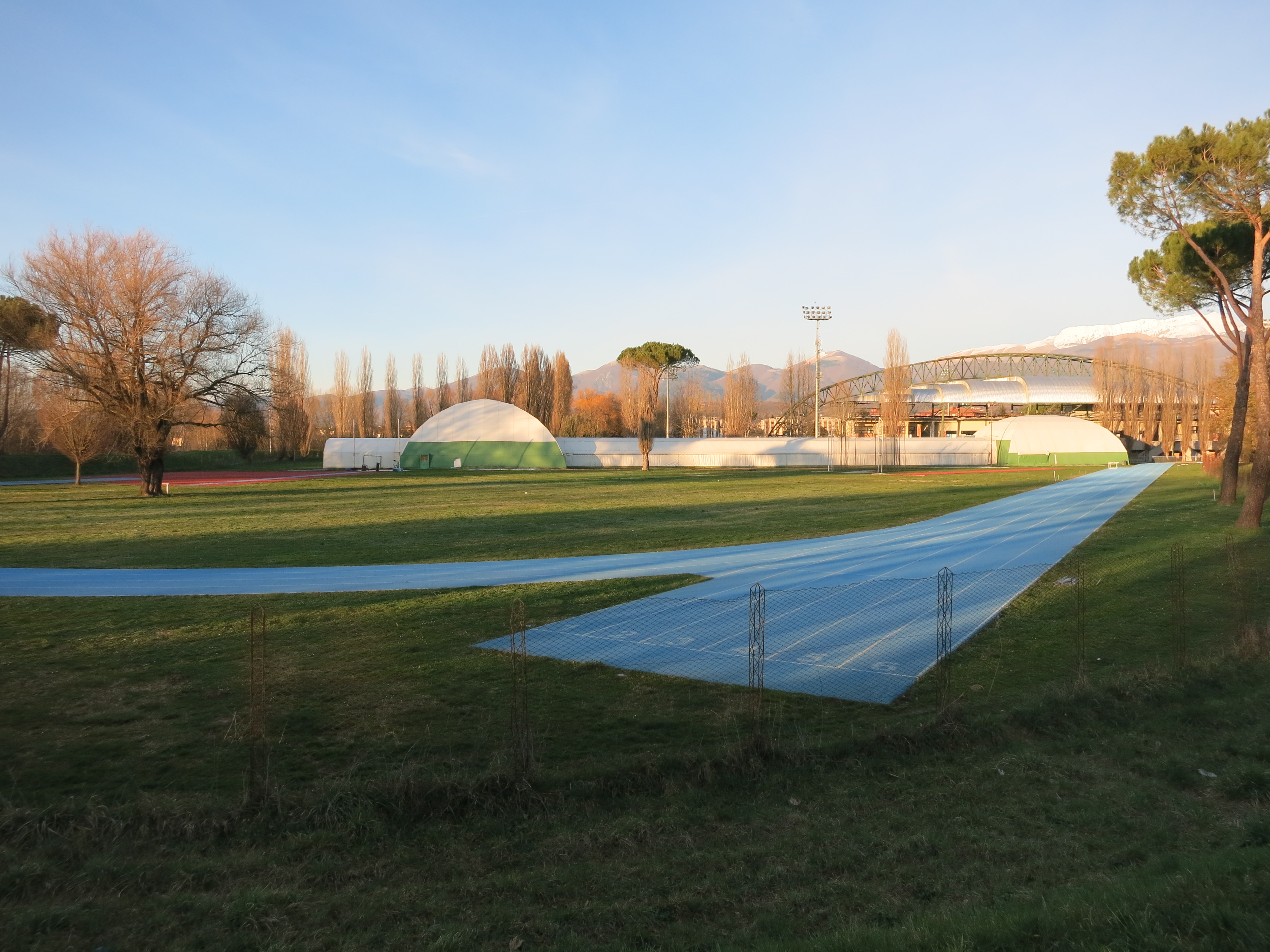 Rear track for warming - Stadio Raul Guidobaldi, athletics venue in Rieti, Lazio, Italy